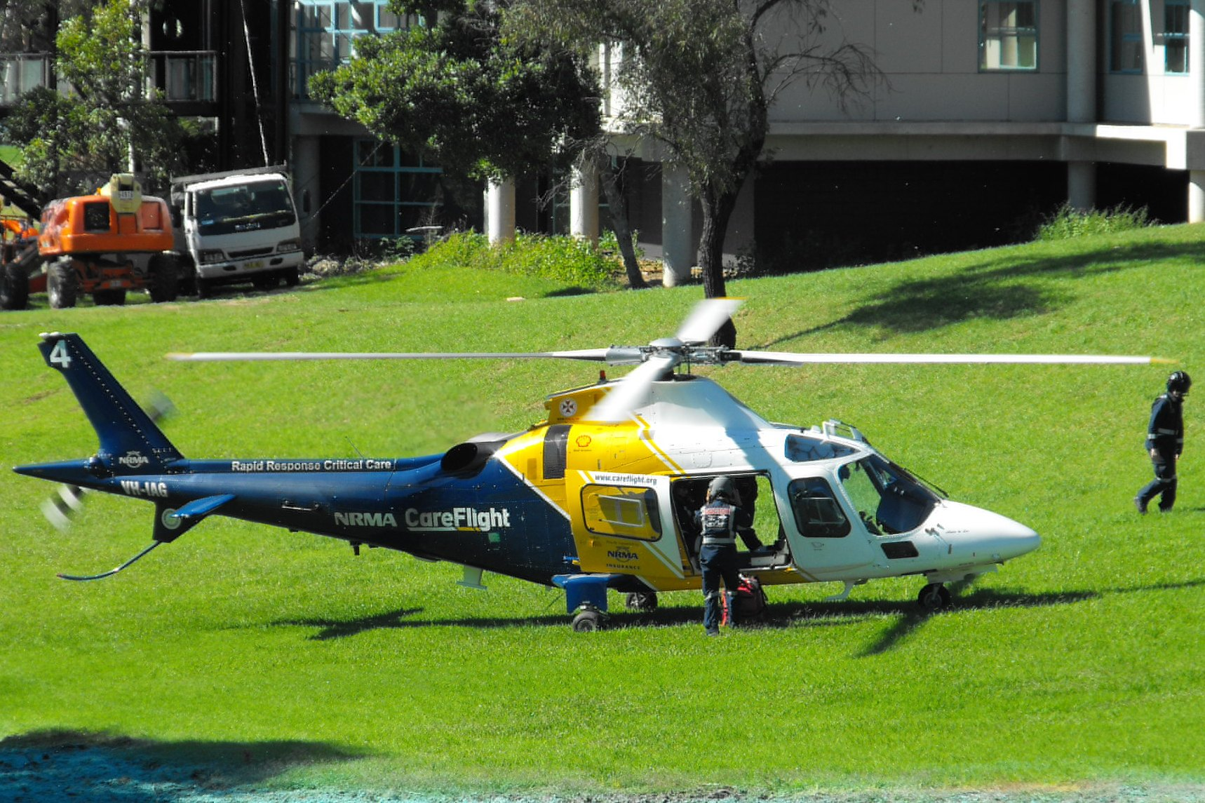 An Agusta Westland A109E helicopter operated by CareFlight International Air Ambulance. The helicopter has just landed on the grounds of Macquarie University so the medical team can attend a serious car accident on nearby Epping Road.